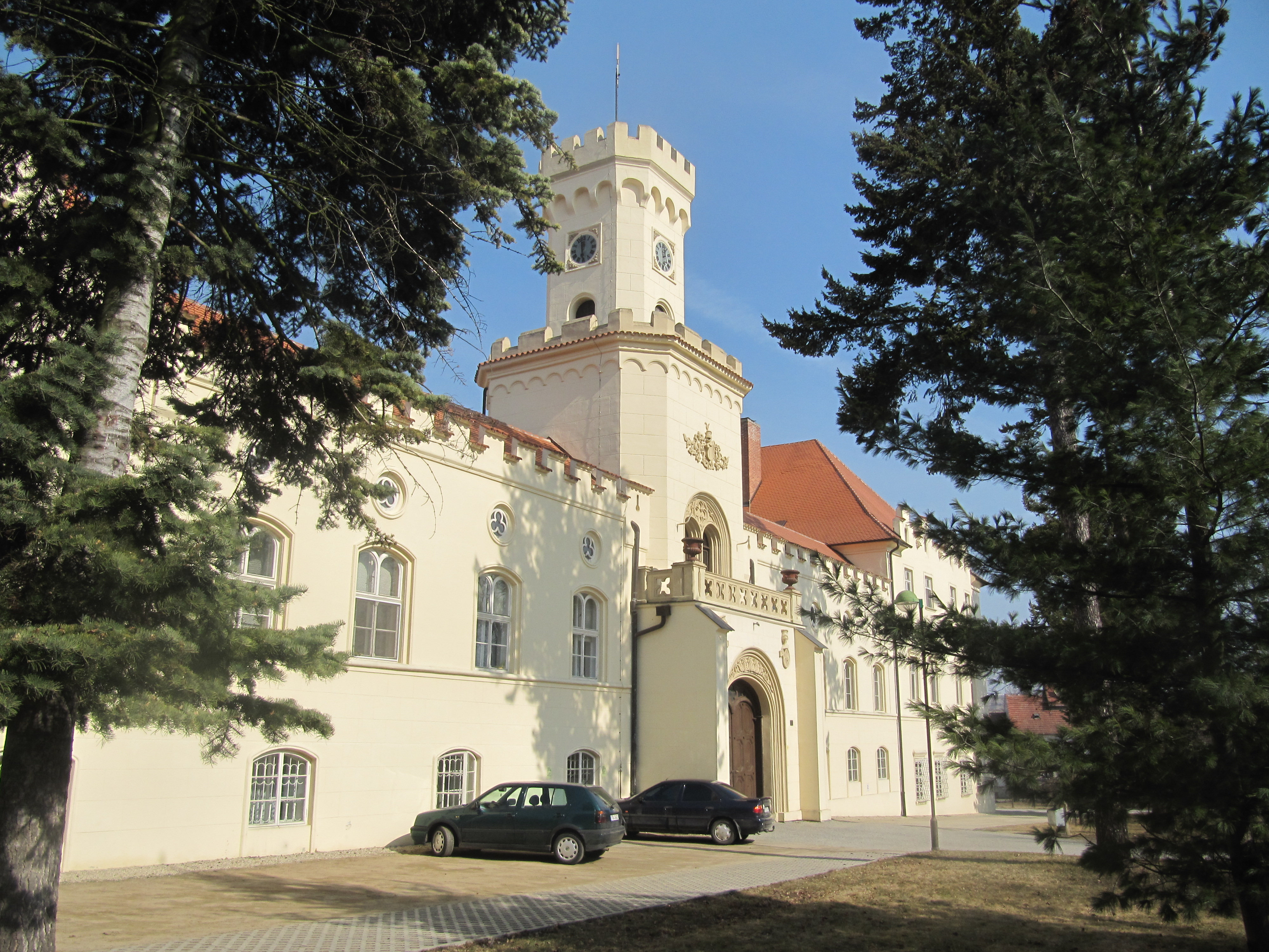 Sokolnice in Brno-Country District, Czech Republic. Castle.